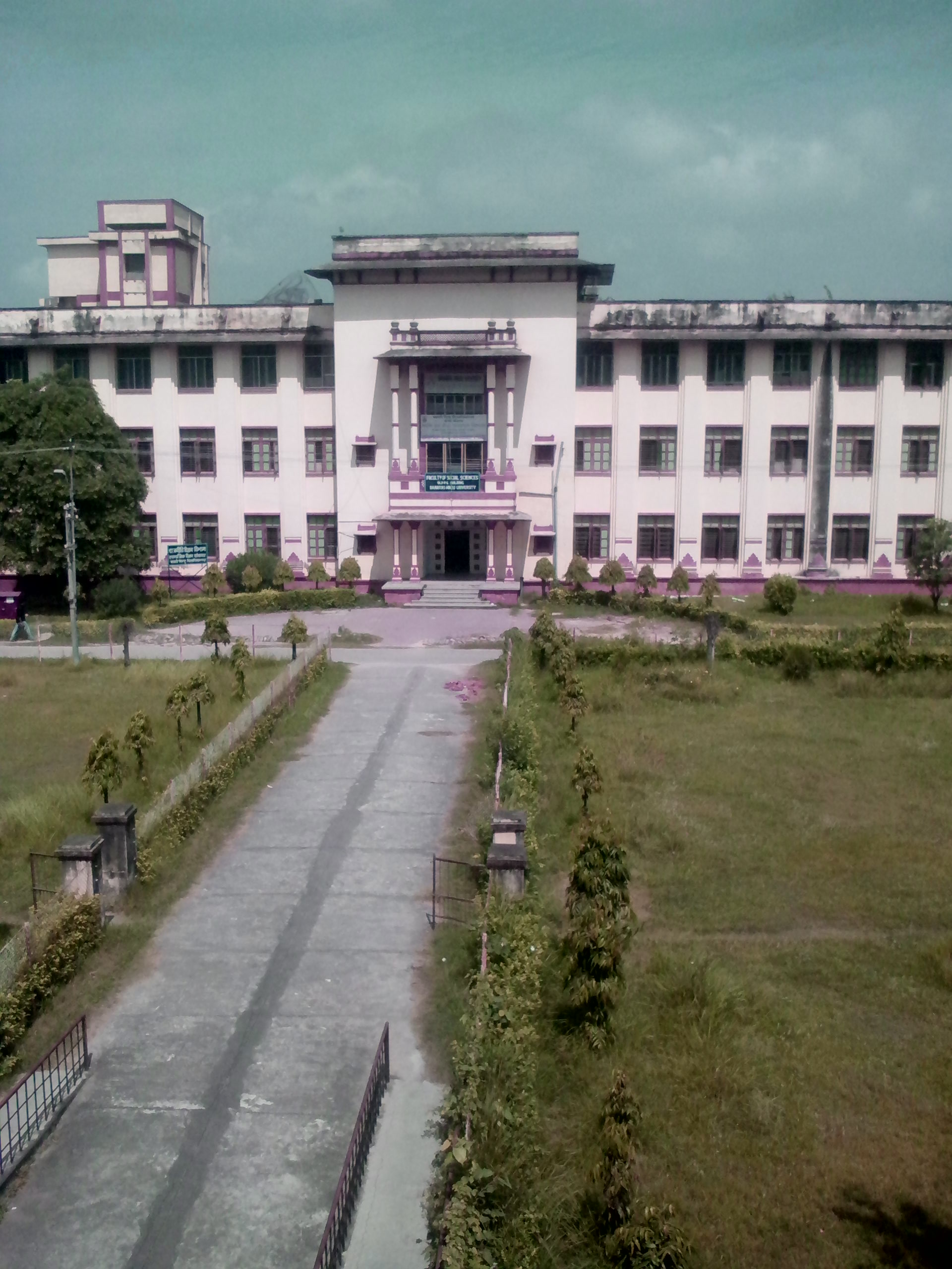 Samanvaya Bhawan, Faculty of Social Sciences (Old PG Building) as seen from Faculty of Arts building